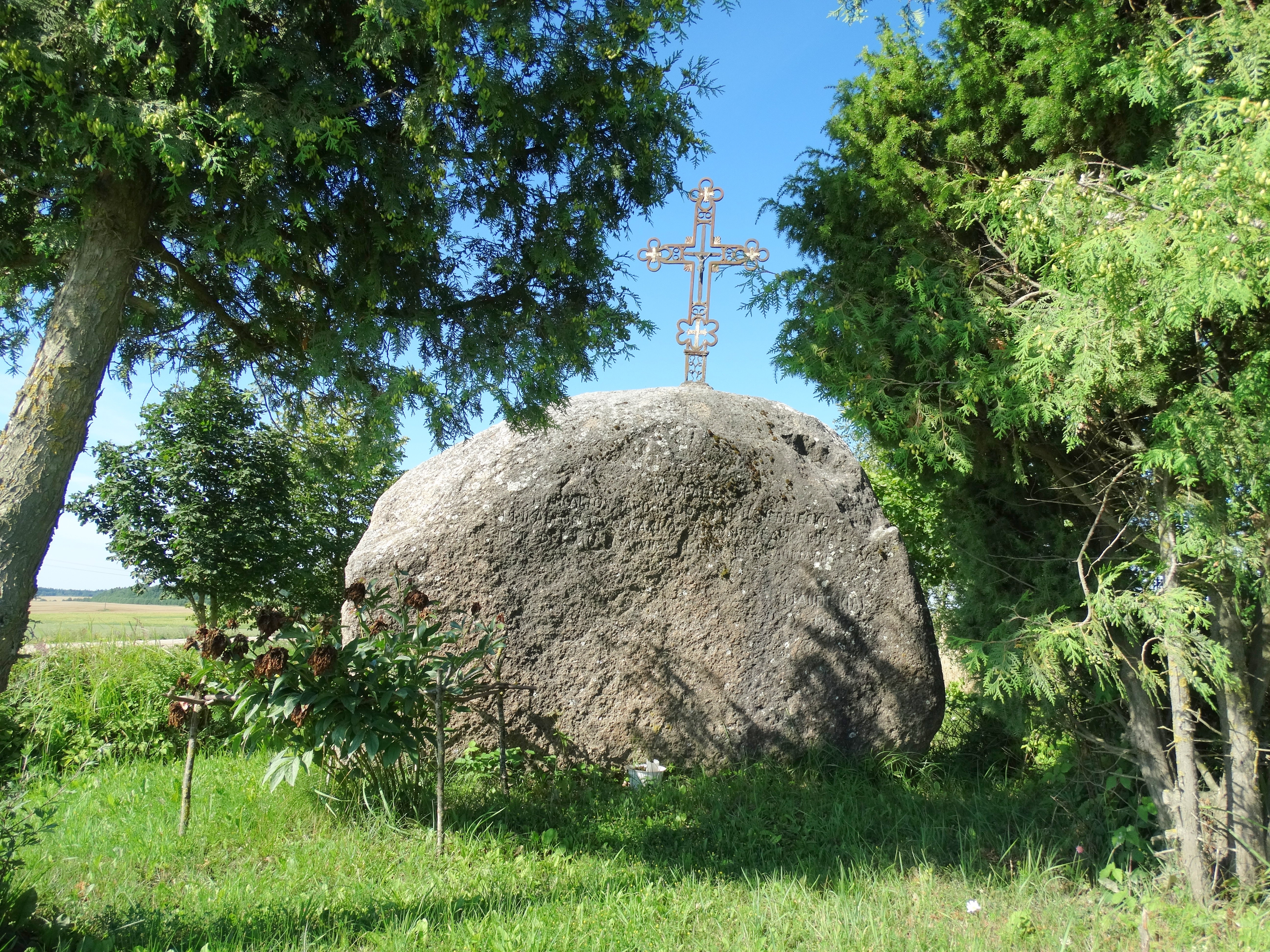 Inscribed stone with a cross in Liaudiškiai, Radviliškis District, Lithuania